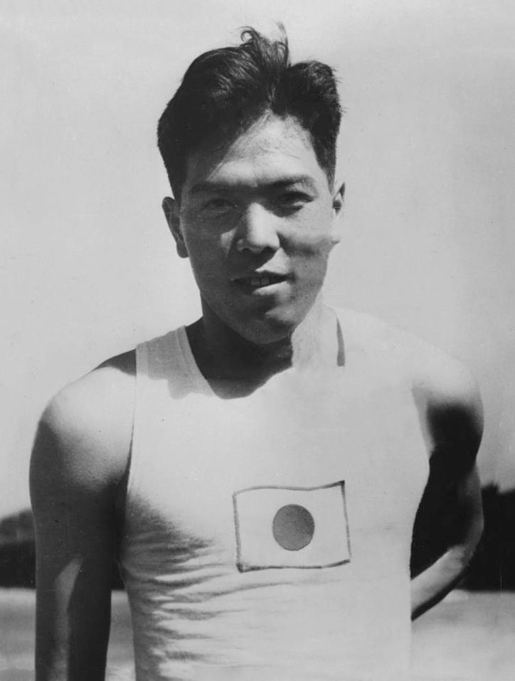 1932 Press Photo Kazuo Kimura, star high jumper of Japanese Olympic team